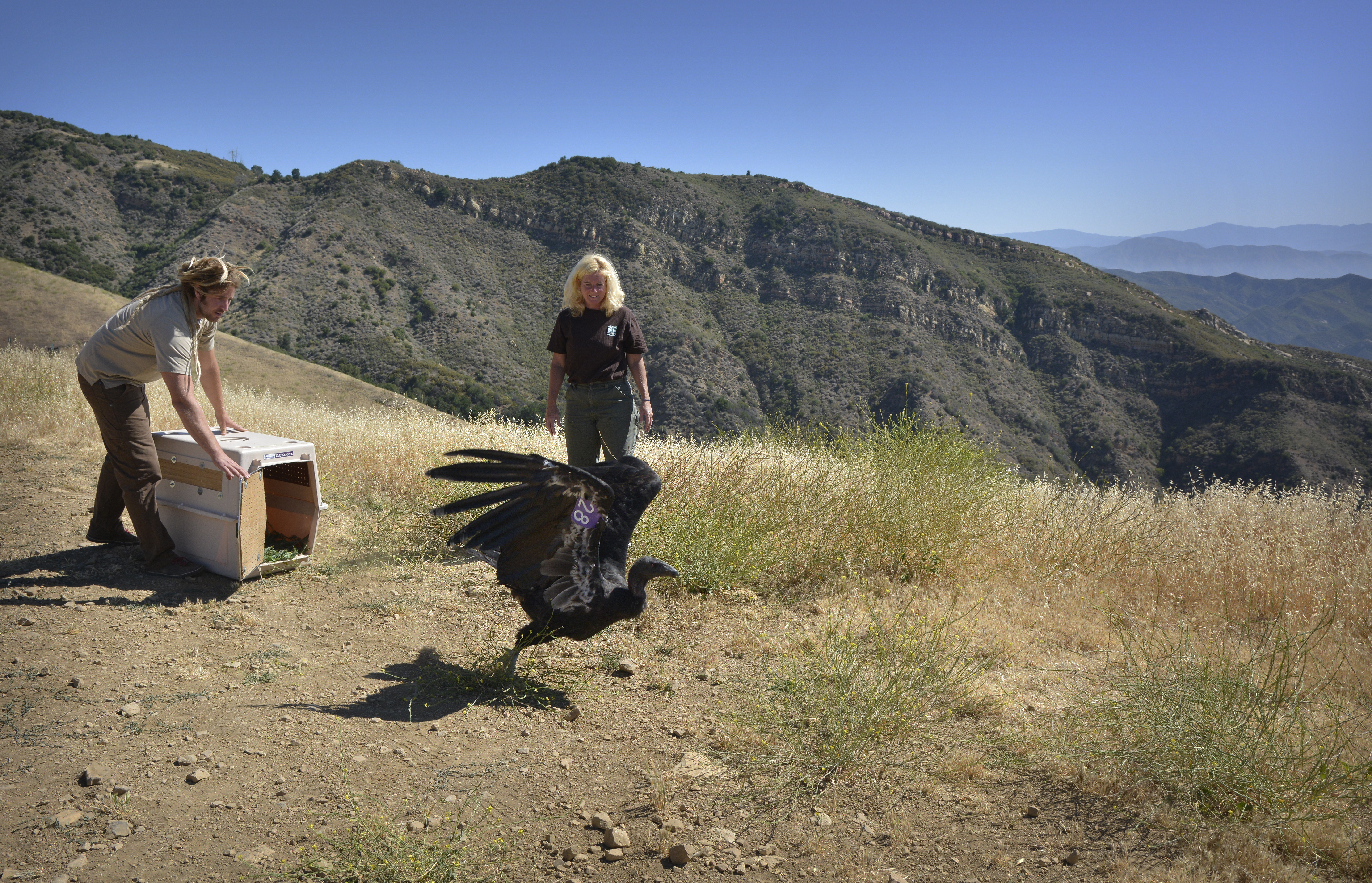 California Condor released at Hopper Mountain National Wildlife Refuge in the Topatopa Mountains, Ventura County, California. Service biologist Joseph Brandt and Beth Pratt, of the National Wildlife Federation, release condor #628. The condor had completed treatment for lead contamination and was released back into her home range. Photo Jon Myatt/USFWS − U.S. Fish and Wildlife Service Pacific Southwest Region